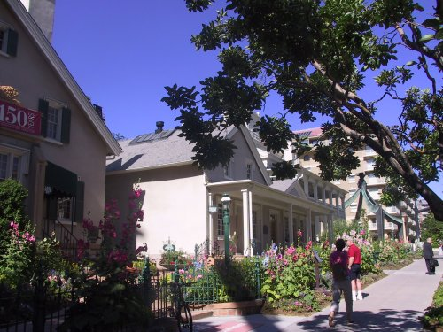 The Lion House was built in 1856 by Brigham Young in Salt Lake City, Utah. I took this picture myself while in Salt Lake City.